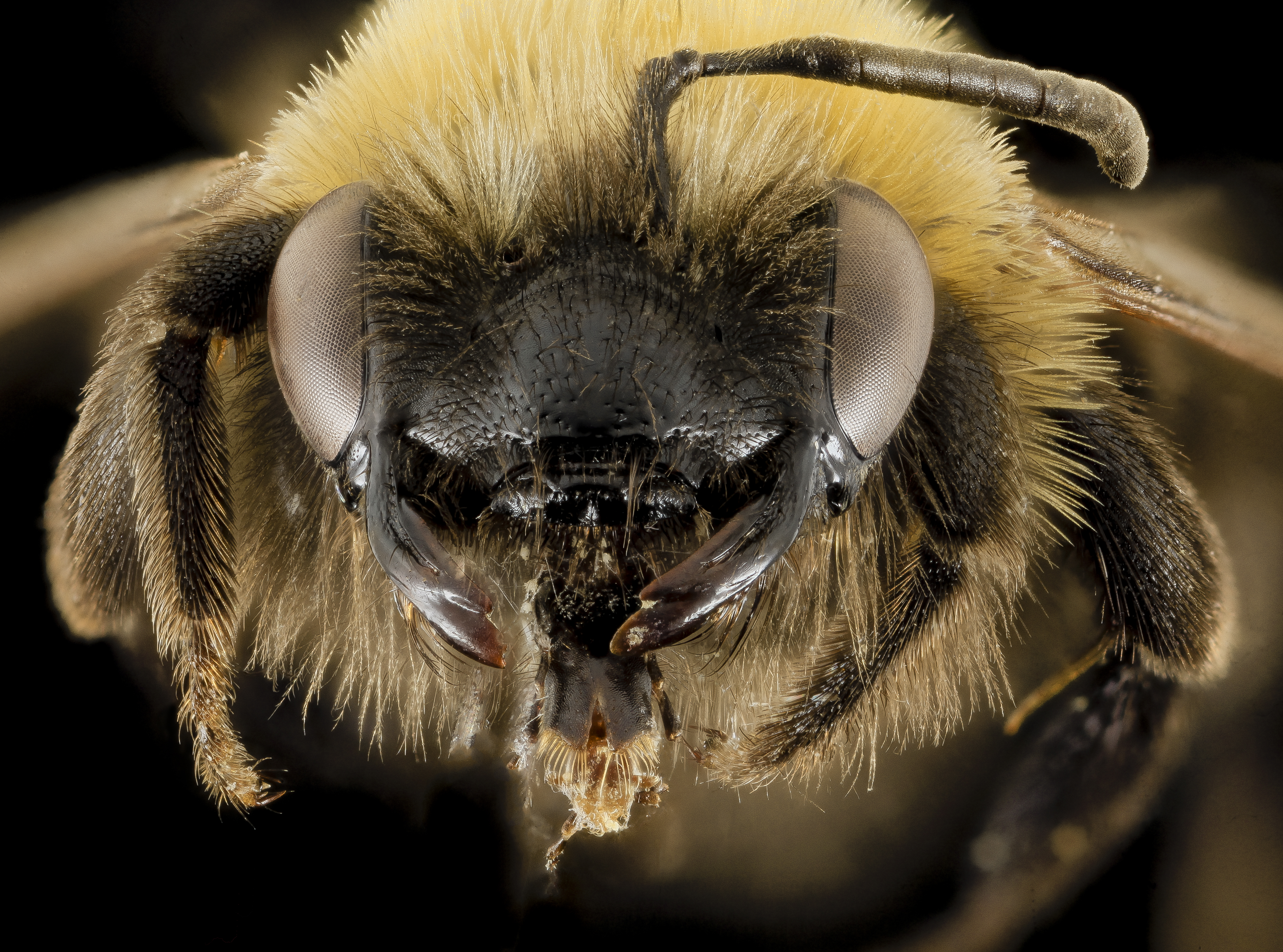 Another dark northern Andrena. This one also runs down the high elevations of the Rockies and the Appalachians. Collected in Hancock County, Maine and contibuted by Alison Dibble. Photographed by Wayne Boo Canon Mark II 5D, Zerene Stacker, 65mm Canon MP-E 1-5X macro lens, Twin Macro Flash, F5.0, ISO 100, Shutter Speed 200, link to a .pdf of our set up is located in our profile